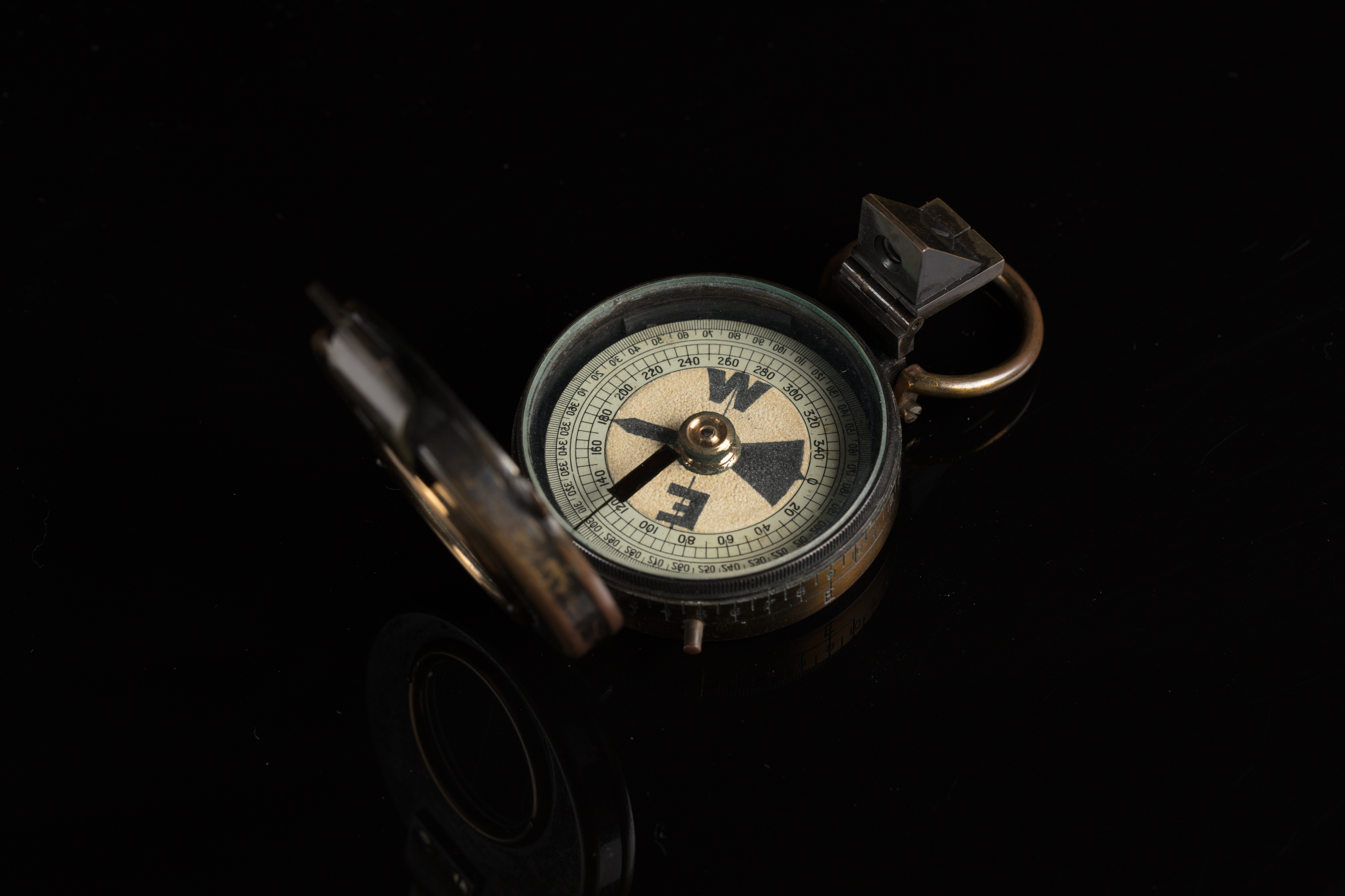 Pocket compass used by Jean Batten for world record flight to New Zealand, 1936. Brass compass made by or retailed by T Peacock & Son, Auckland.